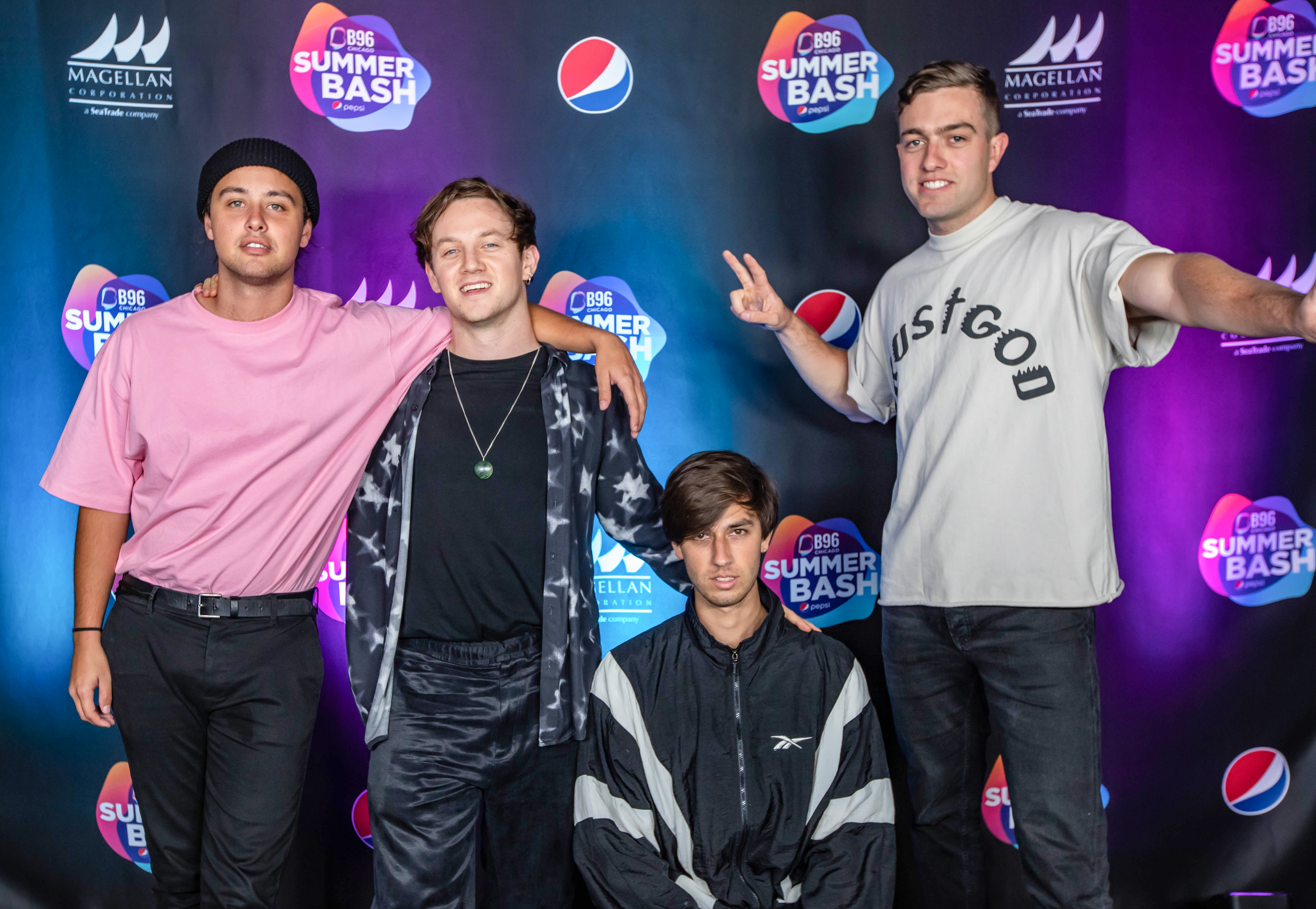 Drax Project at the B96 Pepsi Summer Bash 2019.